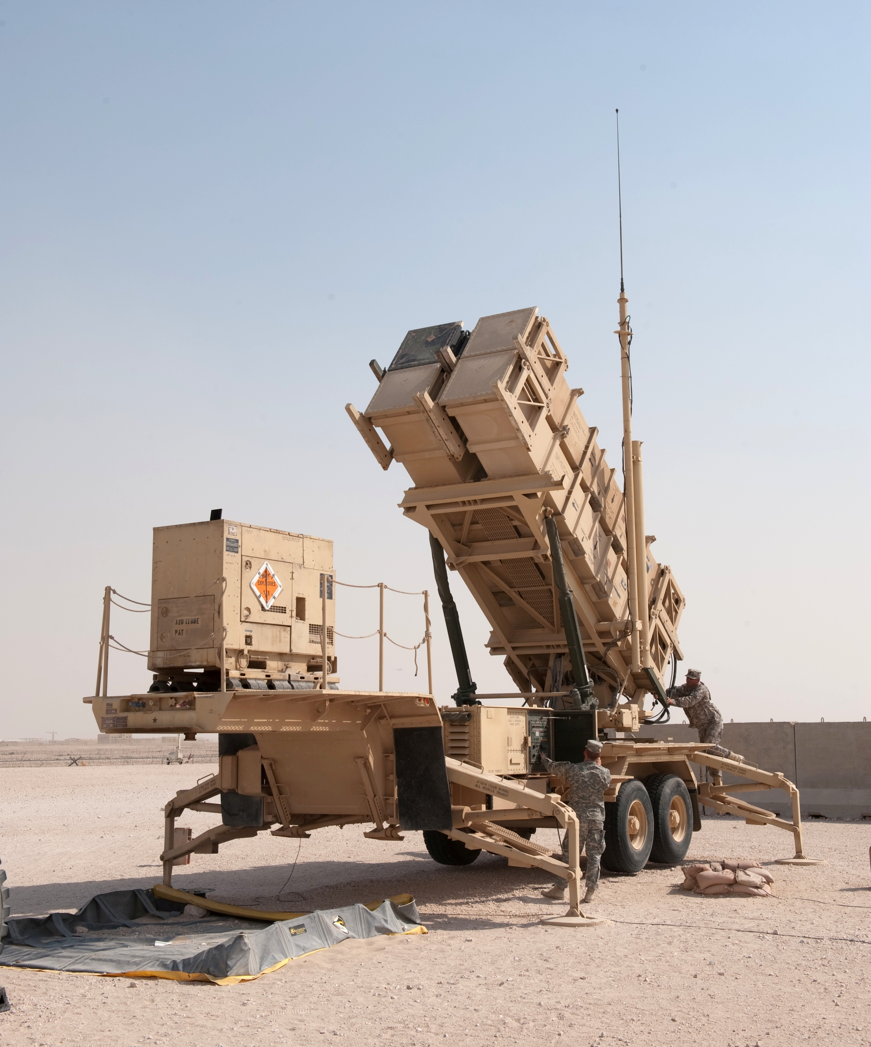 A powered-up MIM-104 Patriot surface-to-air missile system at an undisclosed location in Southwest Asia, August 29, 2009.